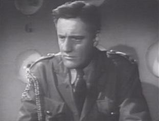 Screenshot from public domain 1954 Flash Gordon series This work is in the public domain because it was published in the United States between 1925 and 1963 and although there may or may not have been a copyright notice, the copyright was not renewed. Unless its author has been dead for the required period, it is copyrighted in the countries or areas that do not apply the rule of the shorter term for US works, such as Canada (50 pma), Mainland China (50 pma, not Hong Kong or Macao), Germany (70 pma), Mexico (100 pma), Switzerland (70 pma), and other countries with individual treaties. See Commons:Hirtle chart for further explanation.